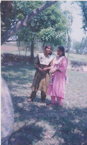 These are two girls in mango garden in Goramansingh village.